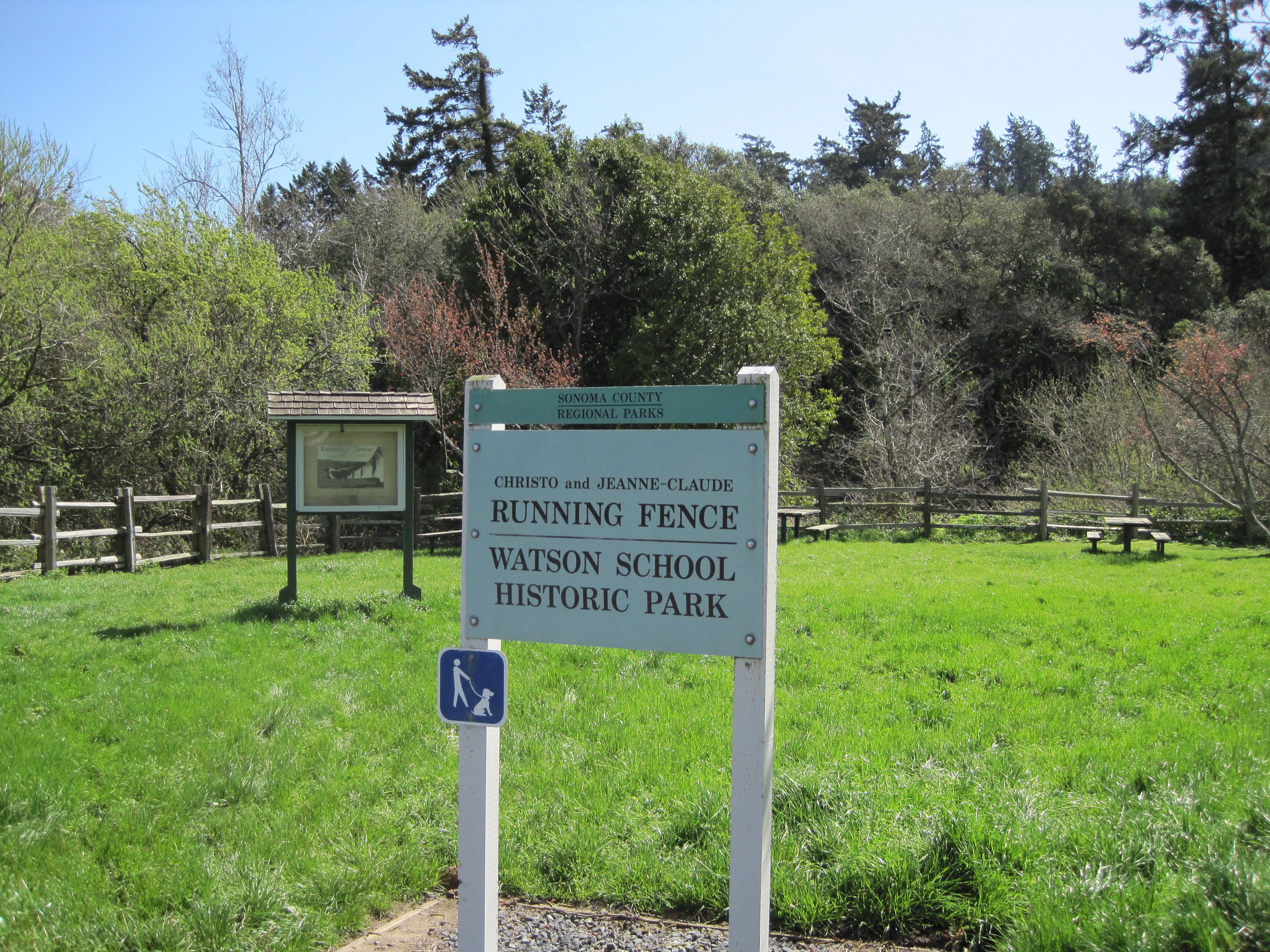 Running Fence & Watson School Regional Sonoma County Historic Park, Sonoma County, California